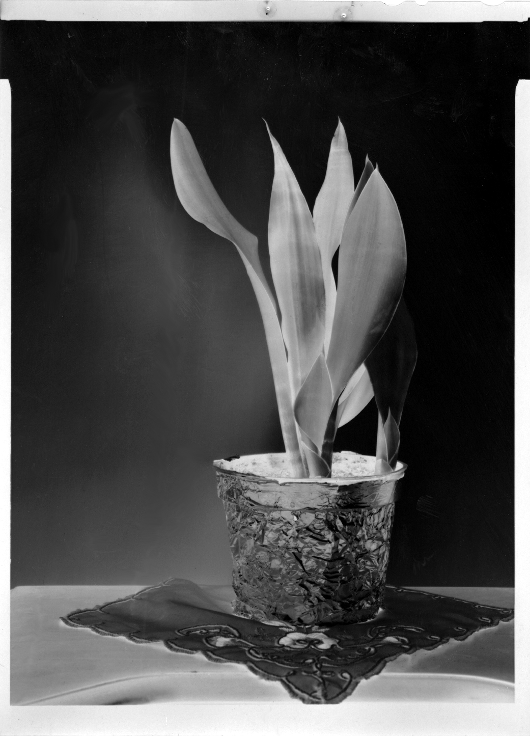 Ilford FP4 13x18 Negative